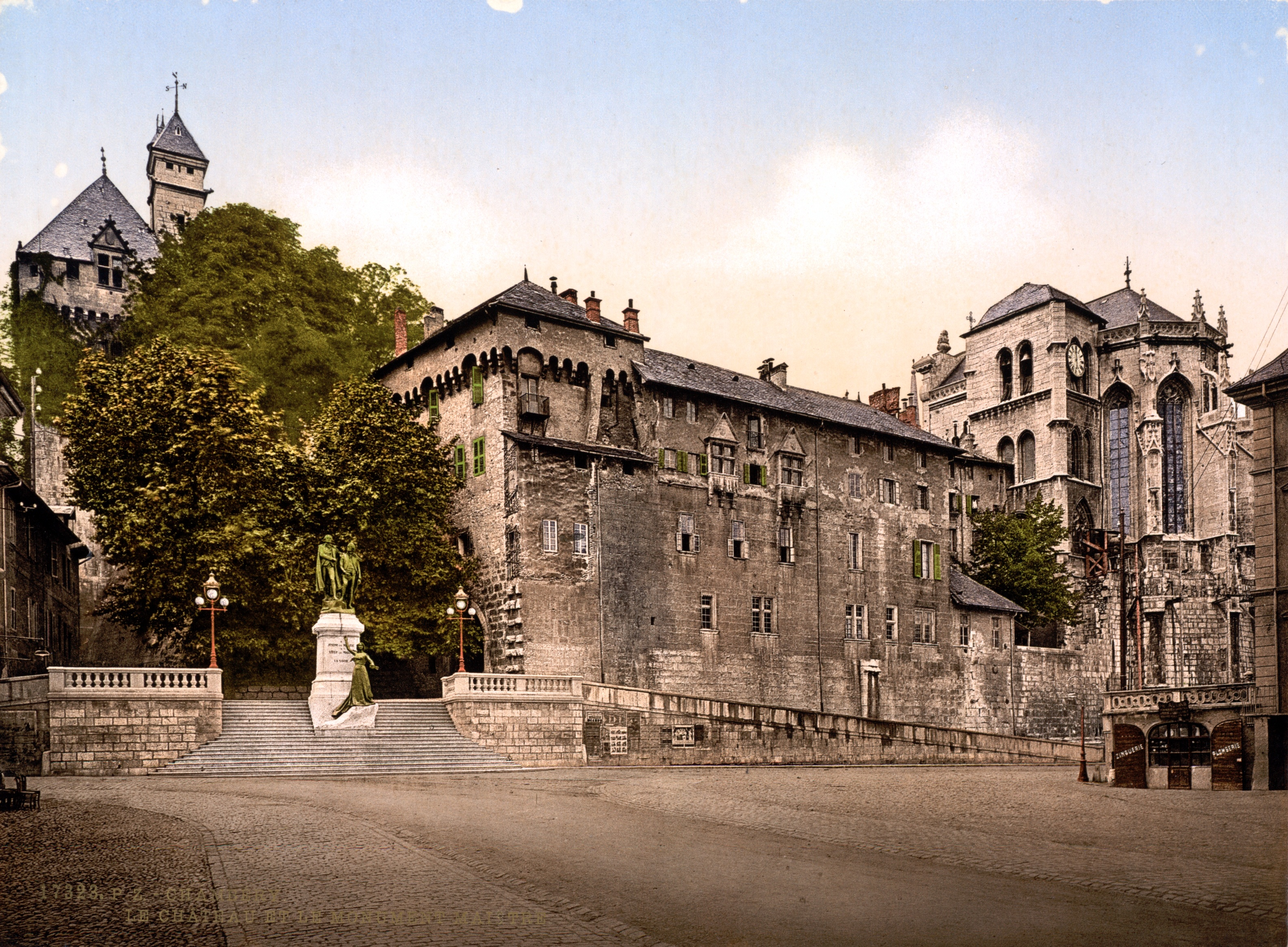 Castle and monument Maistre, Chambéry, France.